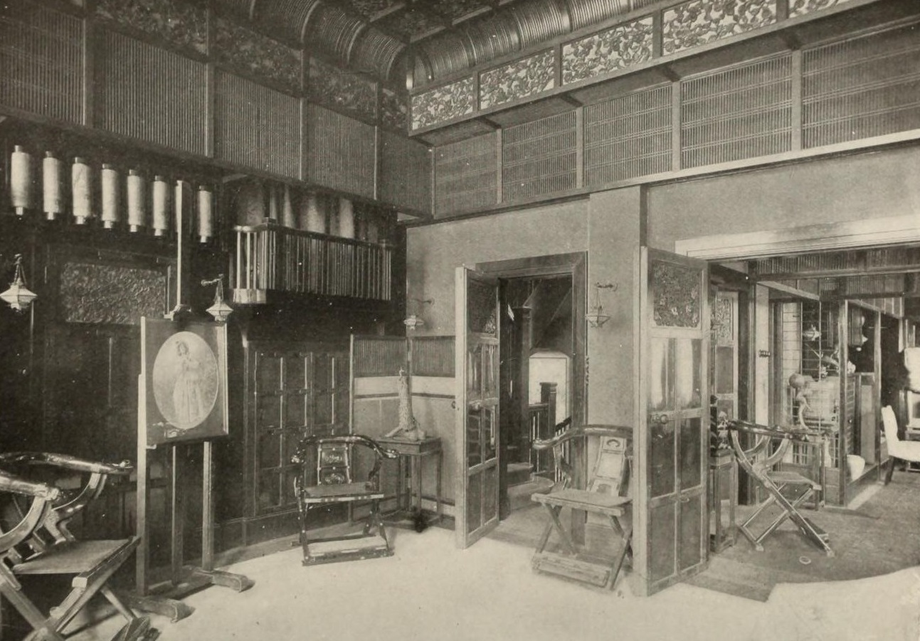 Mortimer Menpes